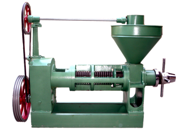 oil expeller